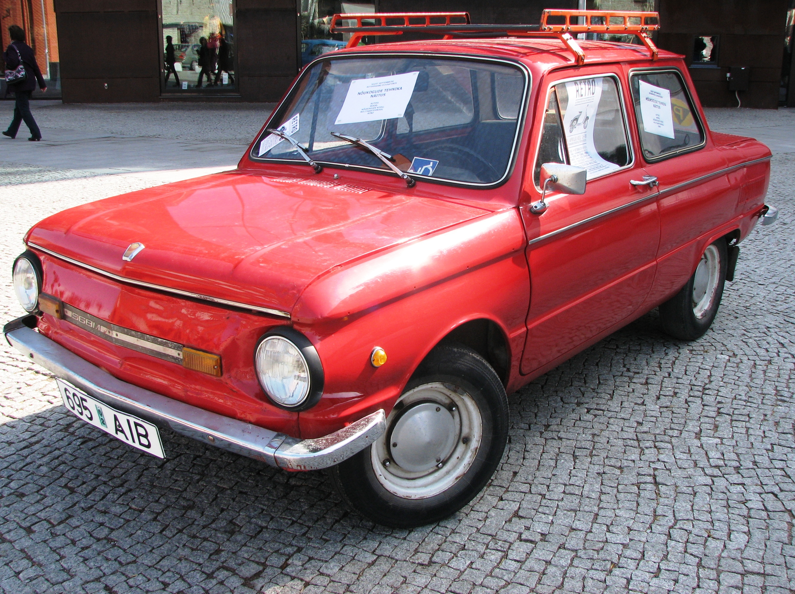 ZAZ-968M